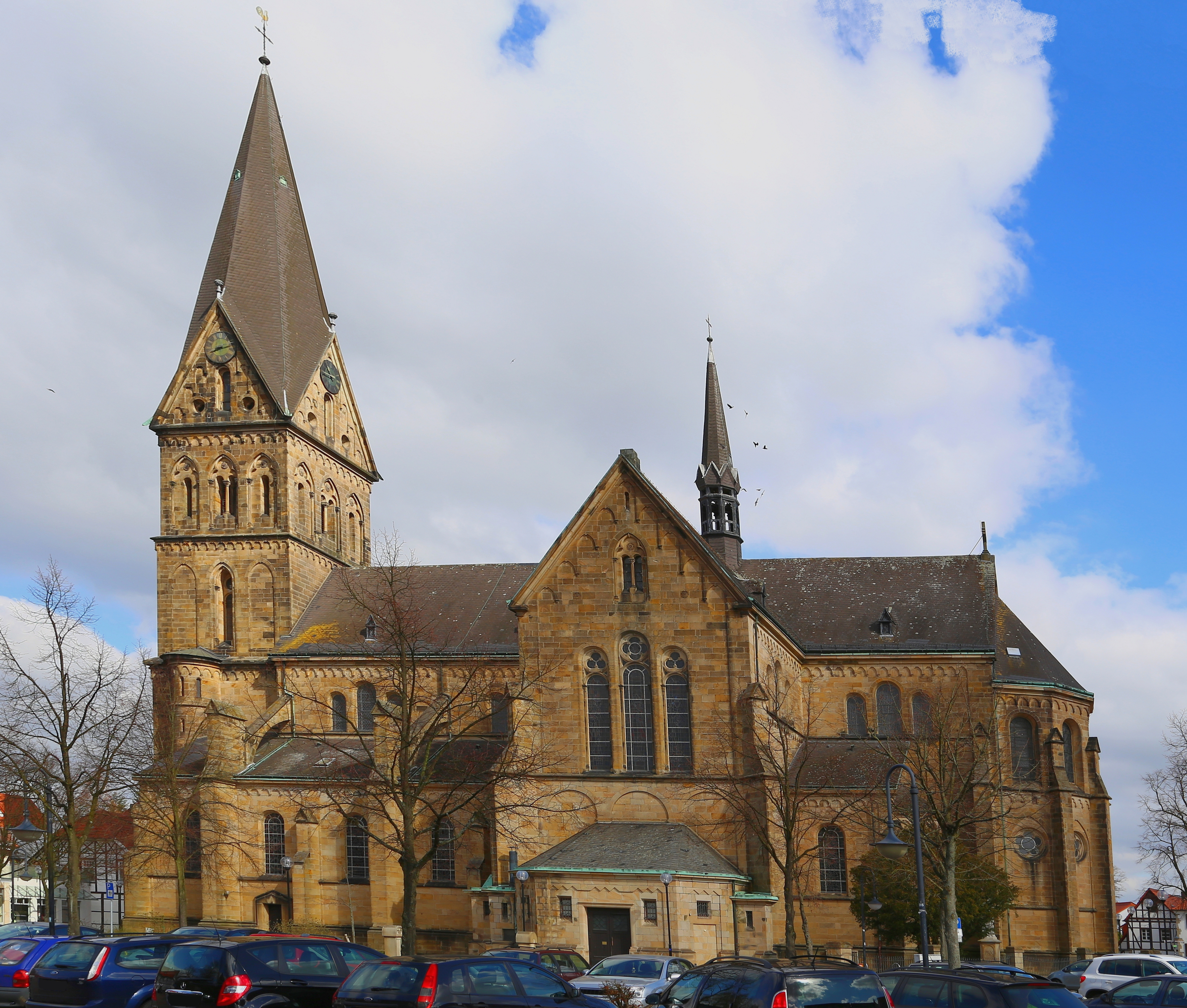 Roman Catholic parish church St. Agatha (St.-Agatha-Pfarrkirche) Mettingen, Kreis Steinfurt, North Rhine-Westphalia, Germany.